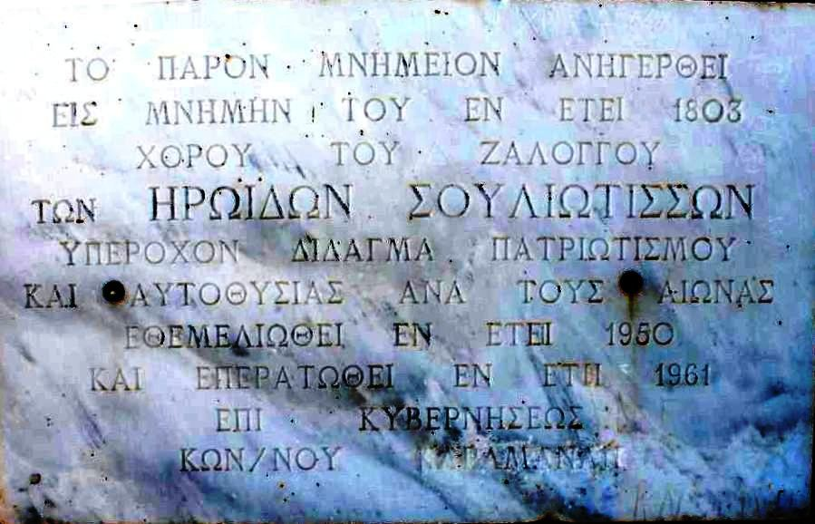 Zaloggo monument plaque